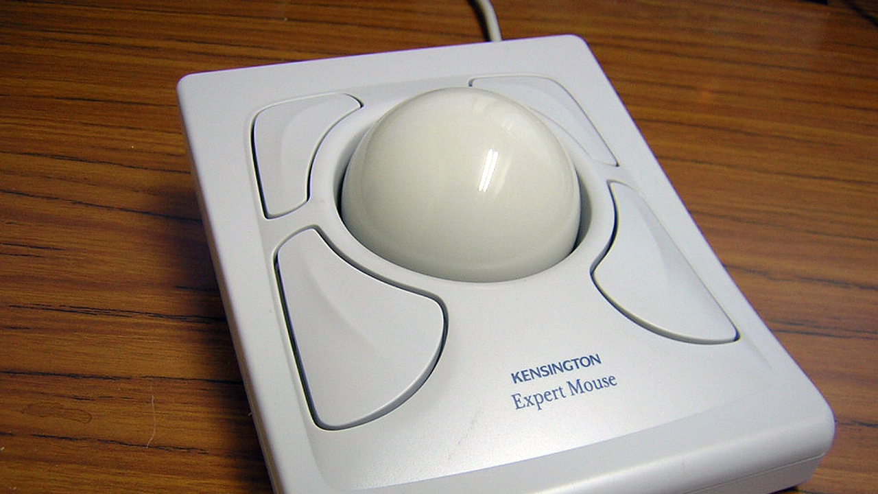 derived from File:Trackball-Kensington-ExpertMouse5.jpg; adapted to VideoWiki aspect ratio